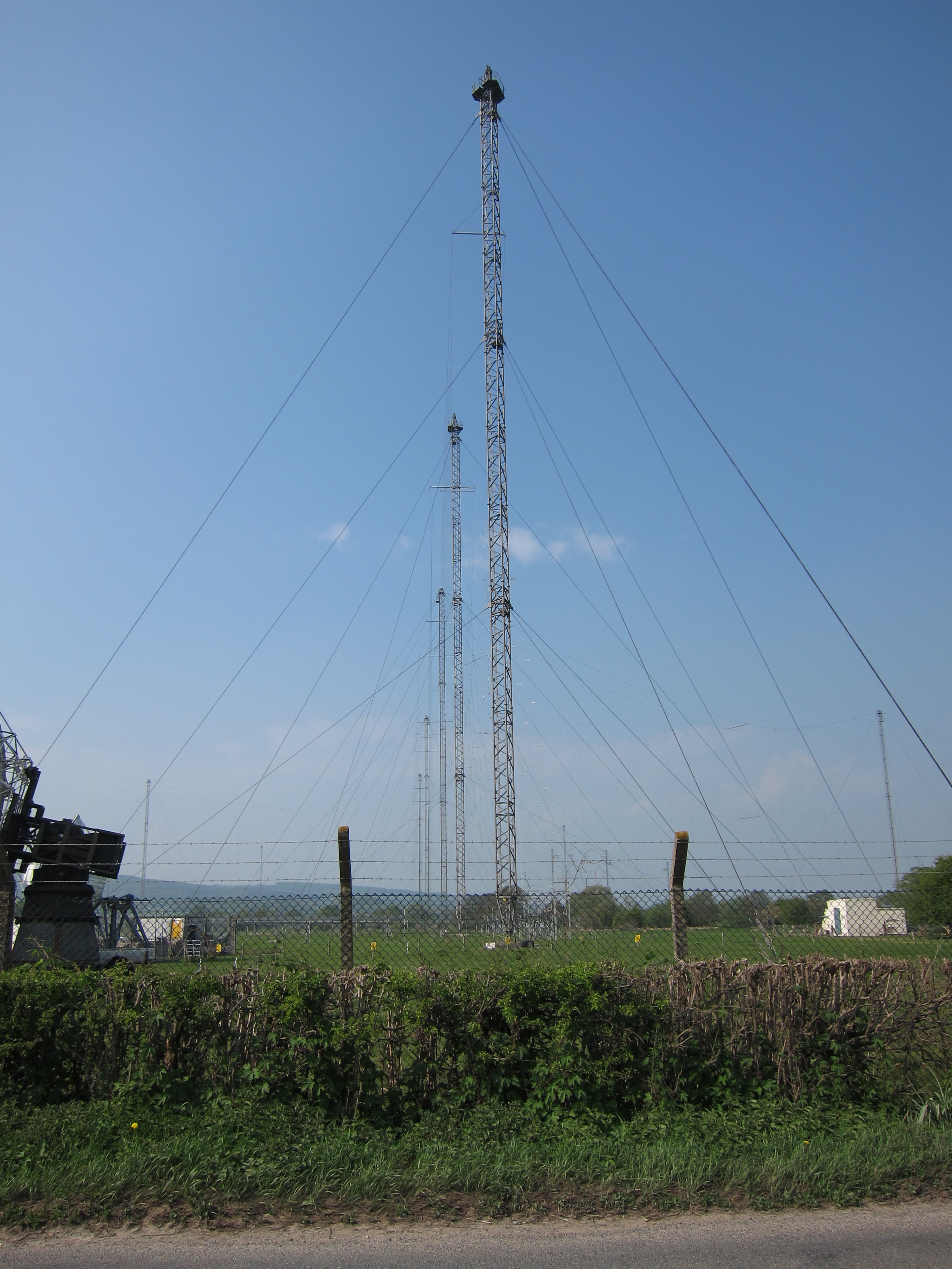 Transmitter masts. I had seen these when I first arrived at Orleton the previous day. My route back to base this day took me past them. I later found out that this is the Woofferton Transmitting Station and makes mostly shortwave broadcasts. During the Cold War, it was used for transmitting "Voice of America" as it had higher power than other transmitter sites, thus overcoming Soviet jamming.